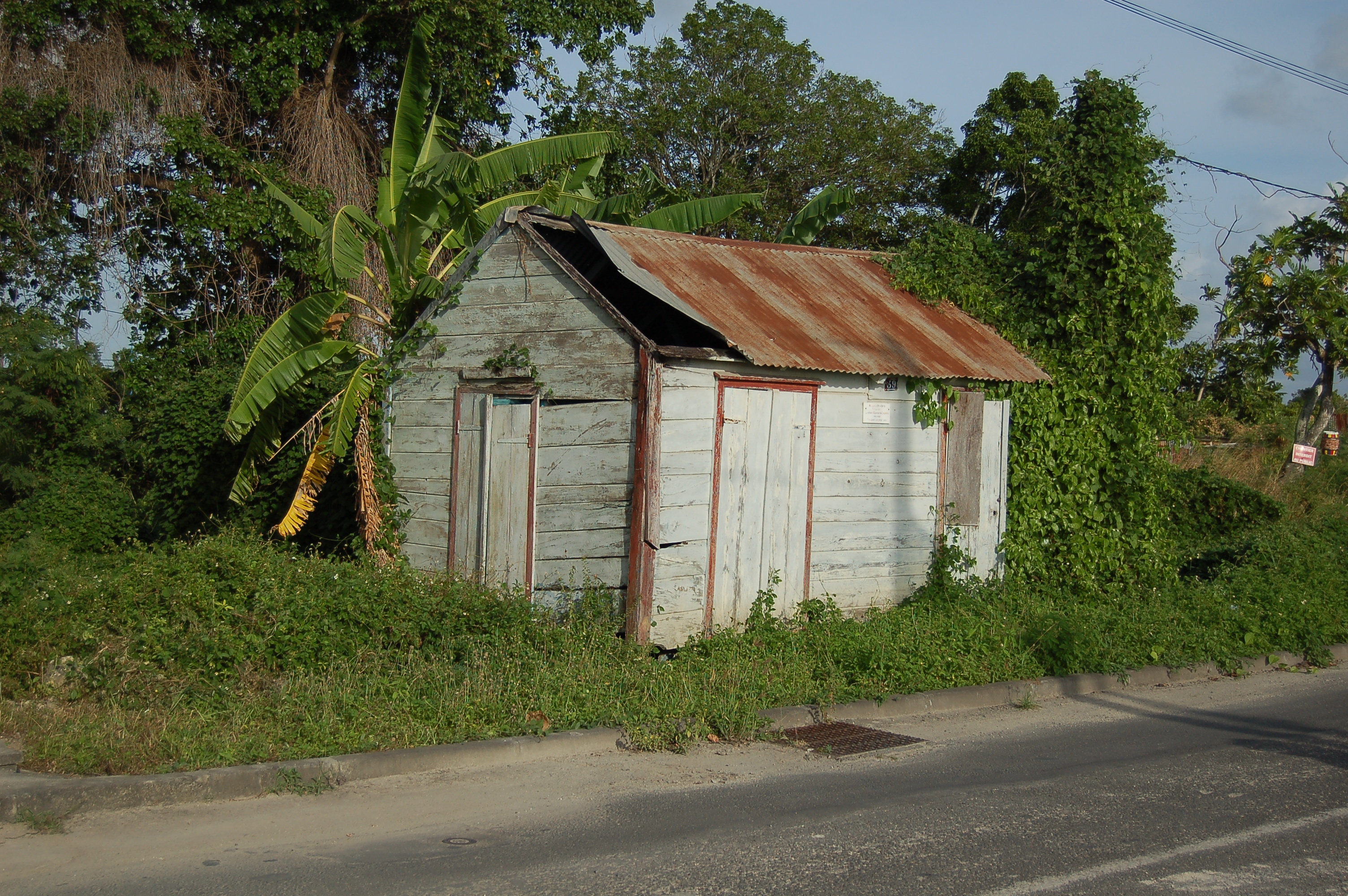 House of Gaston Germain Calixte in Port-Louis, Guadeloupe